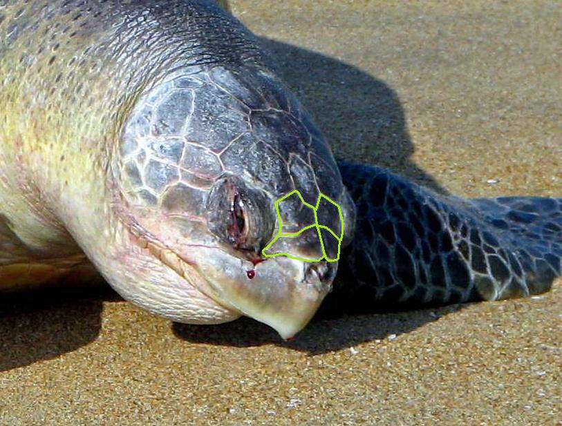 Olive Ridley turtle, near Mahabalipuram, Tamil Nadu, India